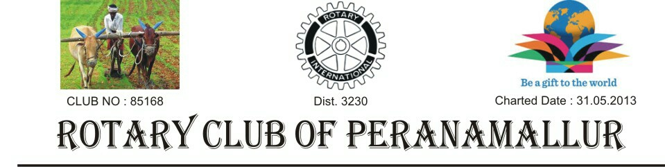 RC PMR